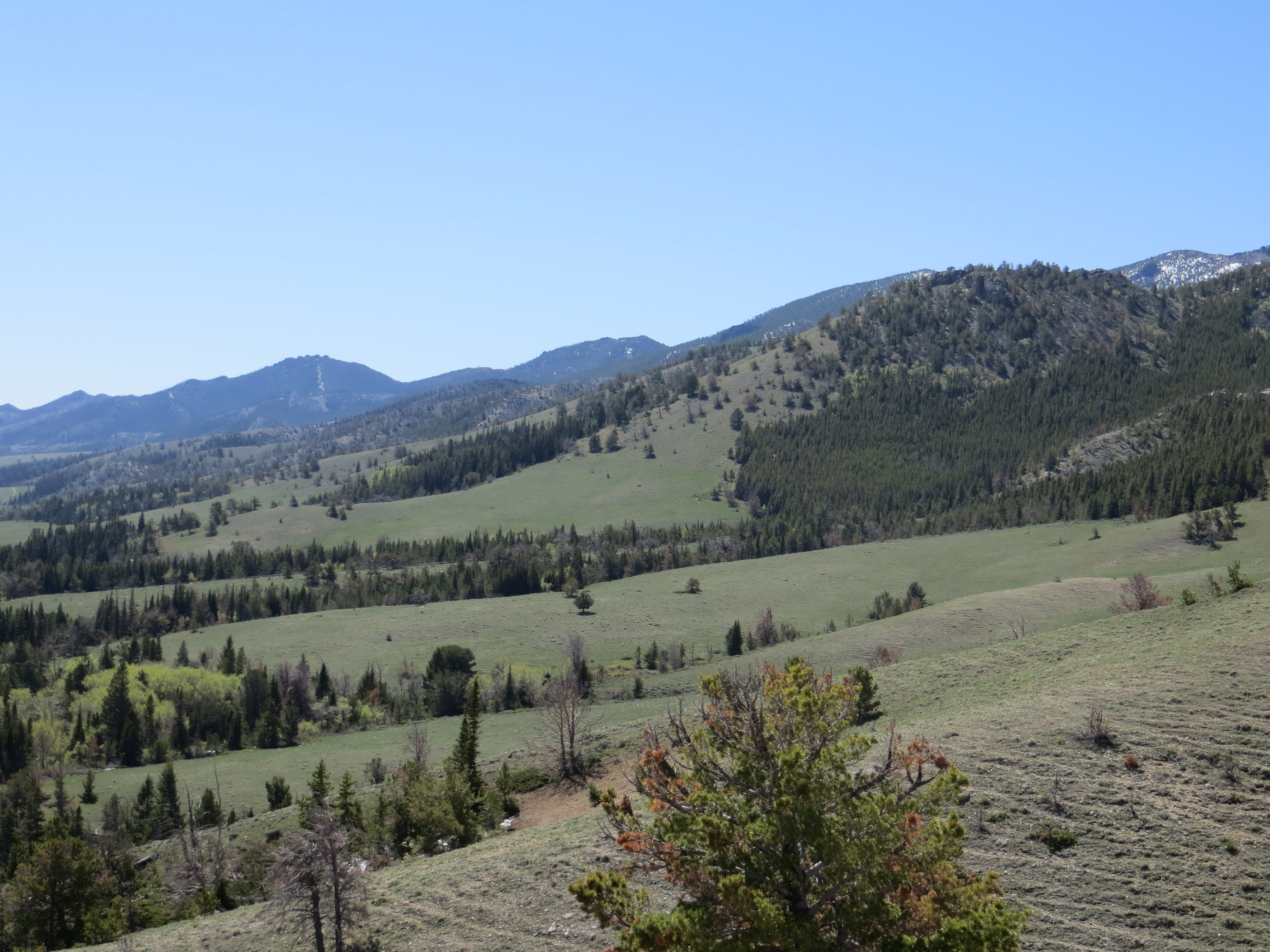 Photo of the north face of the Ferris Mountains in Carbon County, Wyoming.